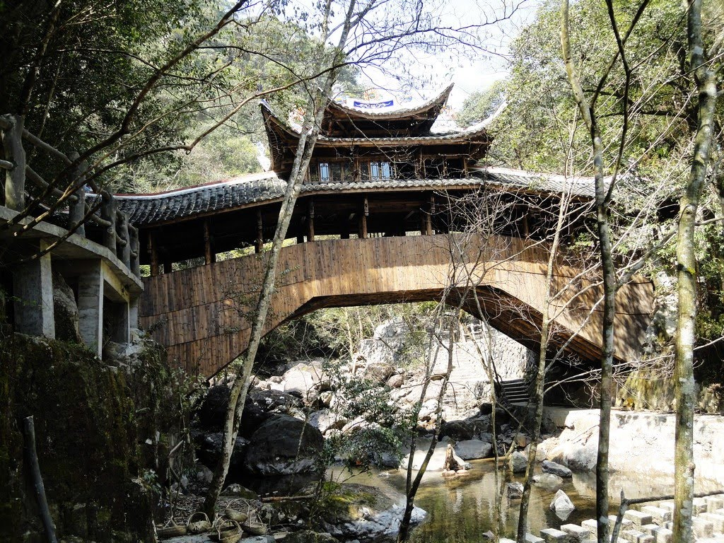 乌岩岭山脚廊桥 Wuyanling foot of covered bridges